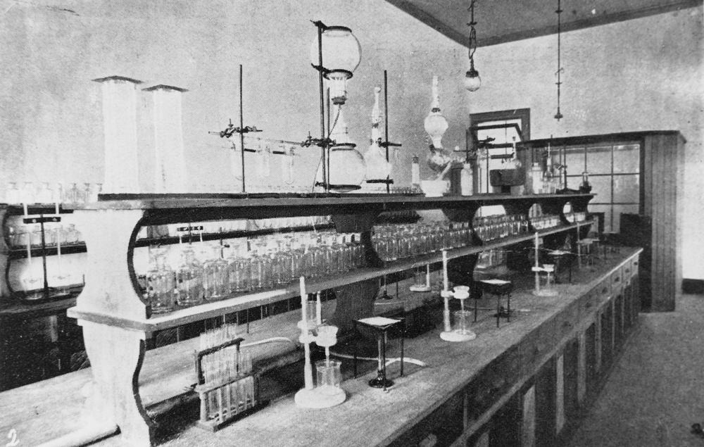 Inside Mount Morgan Technical College's laboratory, Mt. Morgan, 1909 Rows of vacuum flasks are on the shelves.